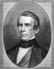 HS Geyer